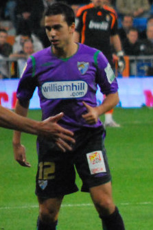 Selim Benachour playing for Malaga, 24 January 2010